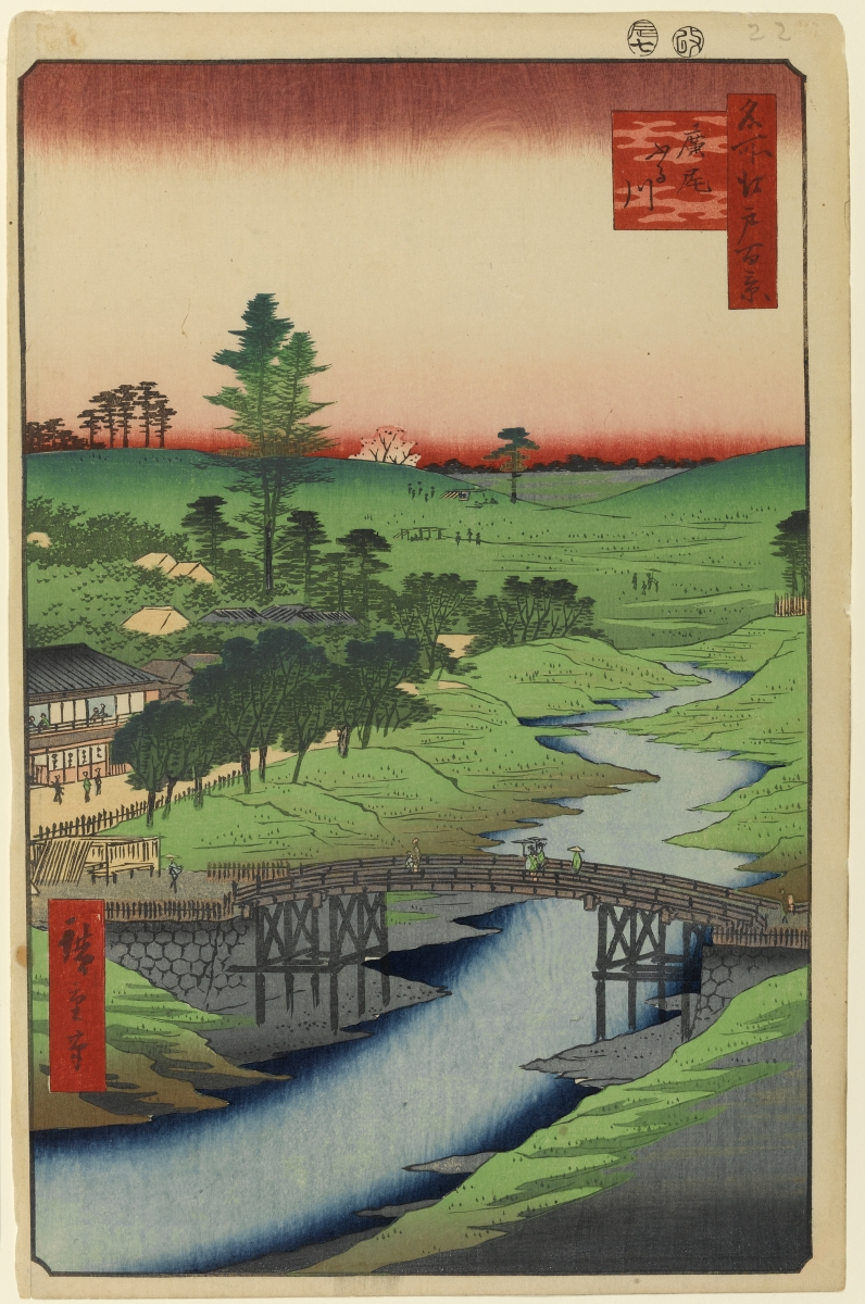 Part of the series One Hundred Famous Views of Edo, no. 022, part 1: Spring.